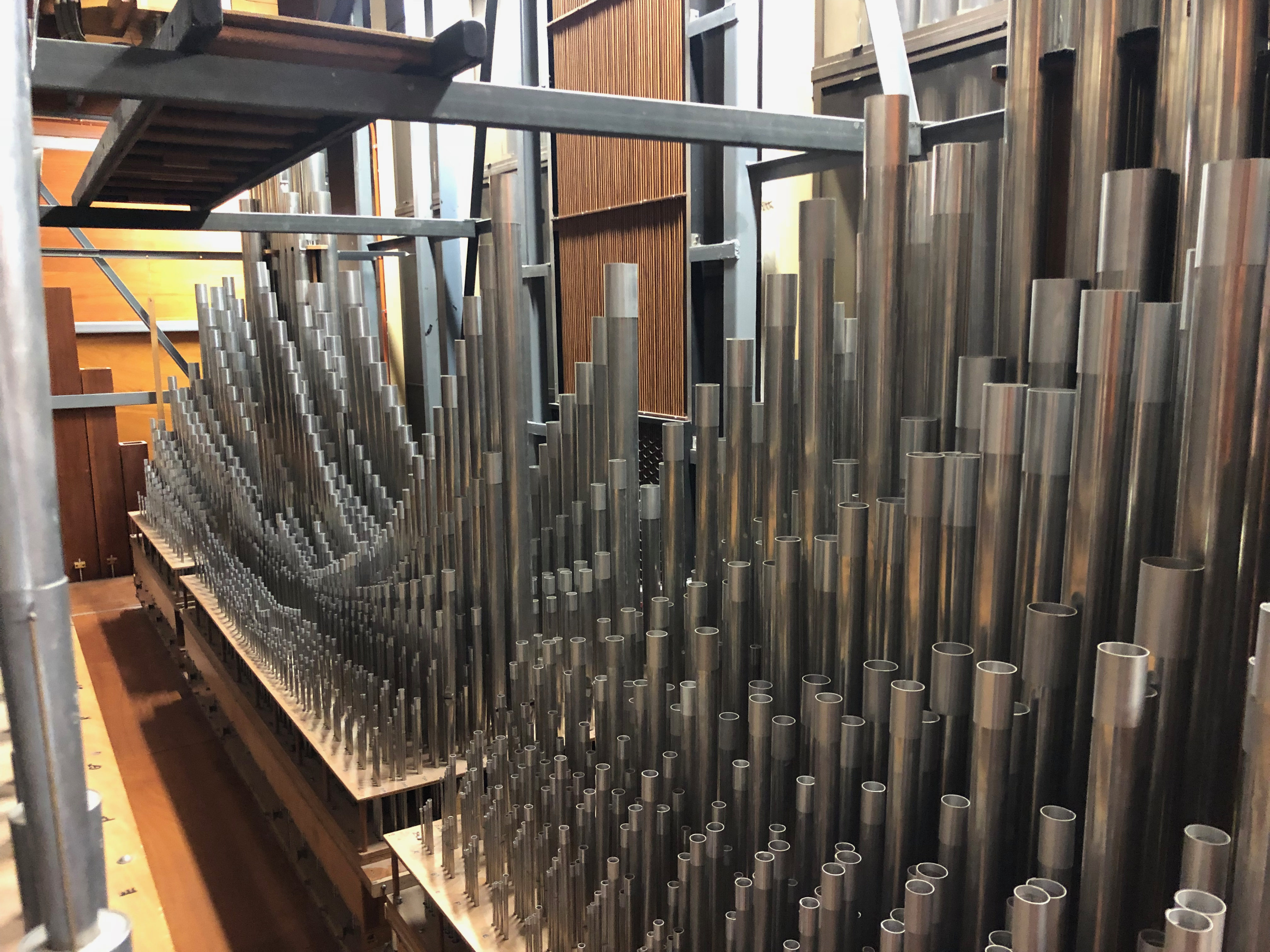 Several ranks of metal pipes inside the Sydney Opera House Concert Hall Grand Organ. In the background a row of tracker-action struts is visible proceeding to the next loft above. Also visible is a ladder used for tuning.